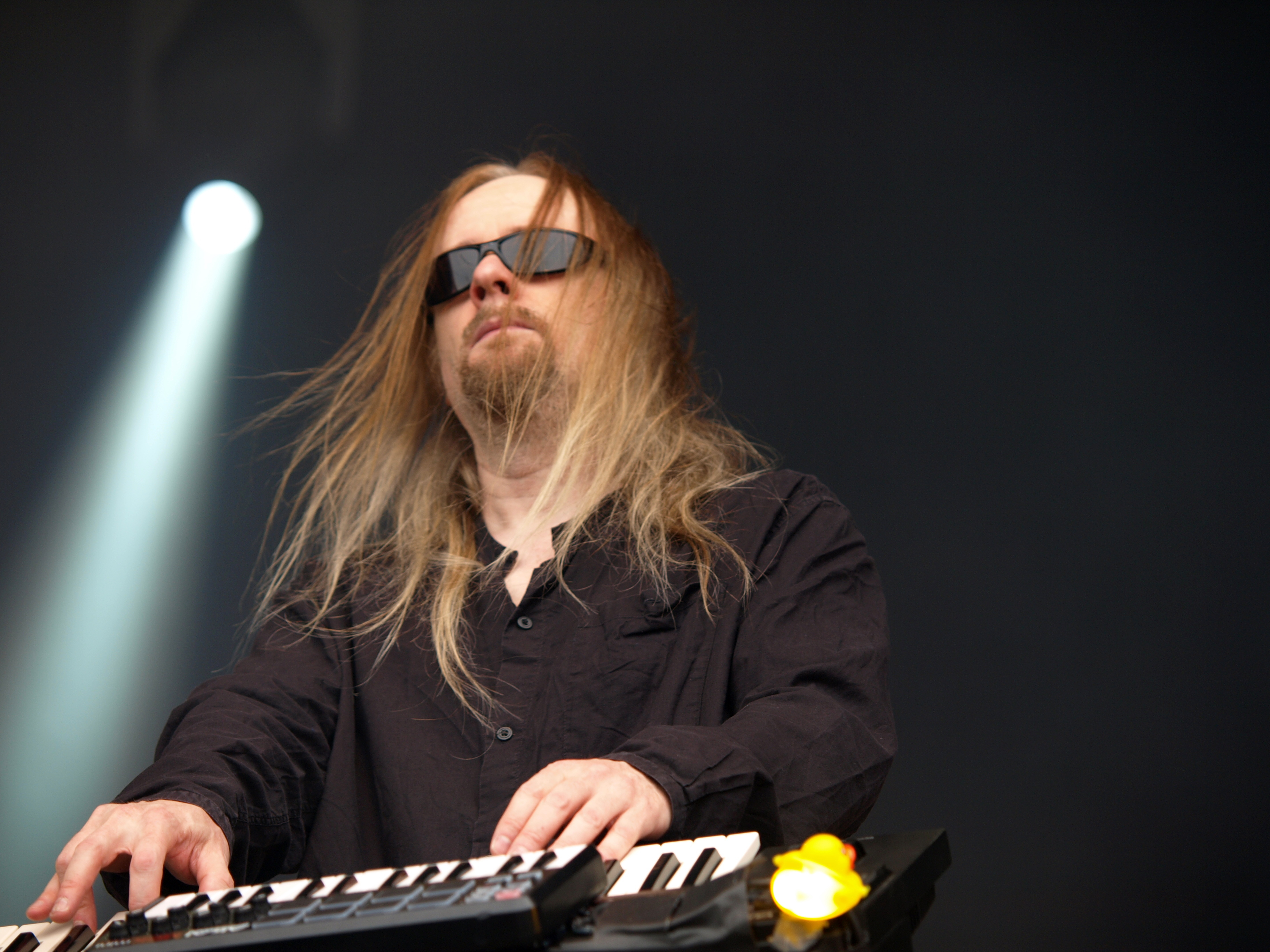 Finnish band Stratovarius at Tuska Open Air 2013